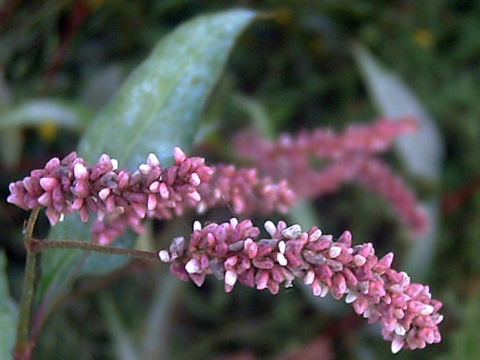 A work release by Javier martin, a plant Persicaria maculosa (syn. Polygonum persicaria), in Pantano del Montoro, Puertollano, Ciudad Real, Spain 2006 July 23. A free donation to Wikipedia.